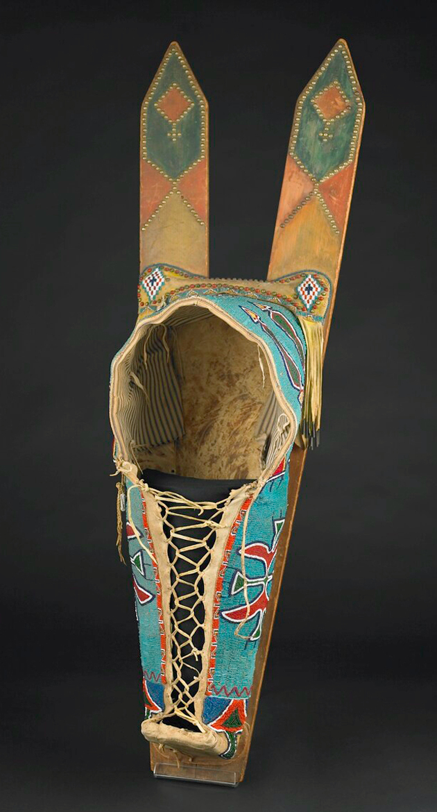 An exquisite full sized cradleboard